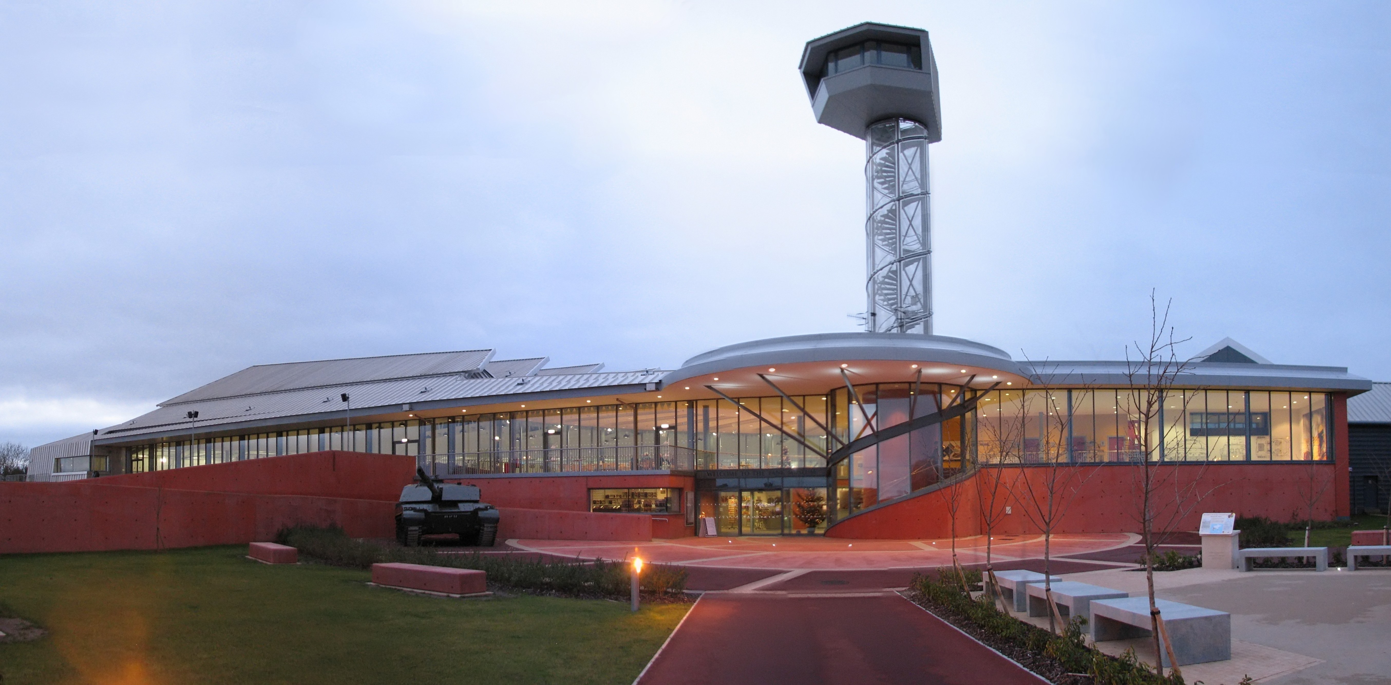 Bovington Tank Museum